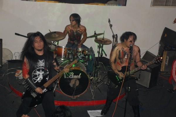 Live at Noise Decibel Festival - Sickening Art (2008).